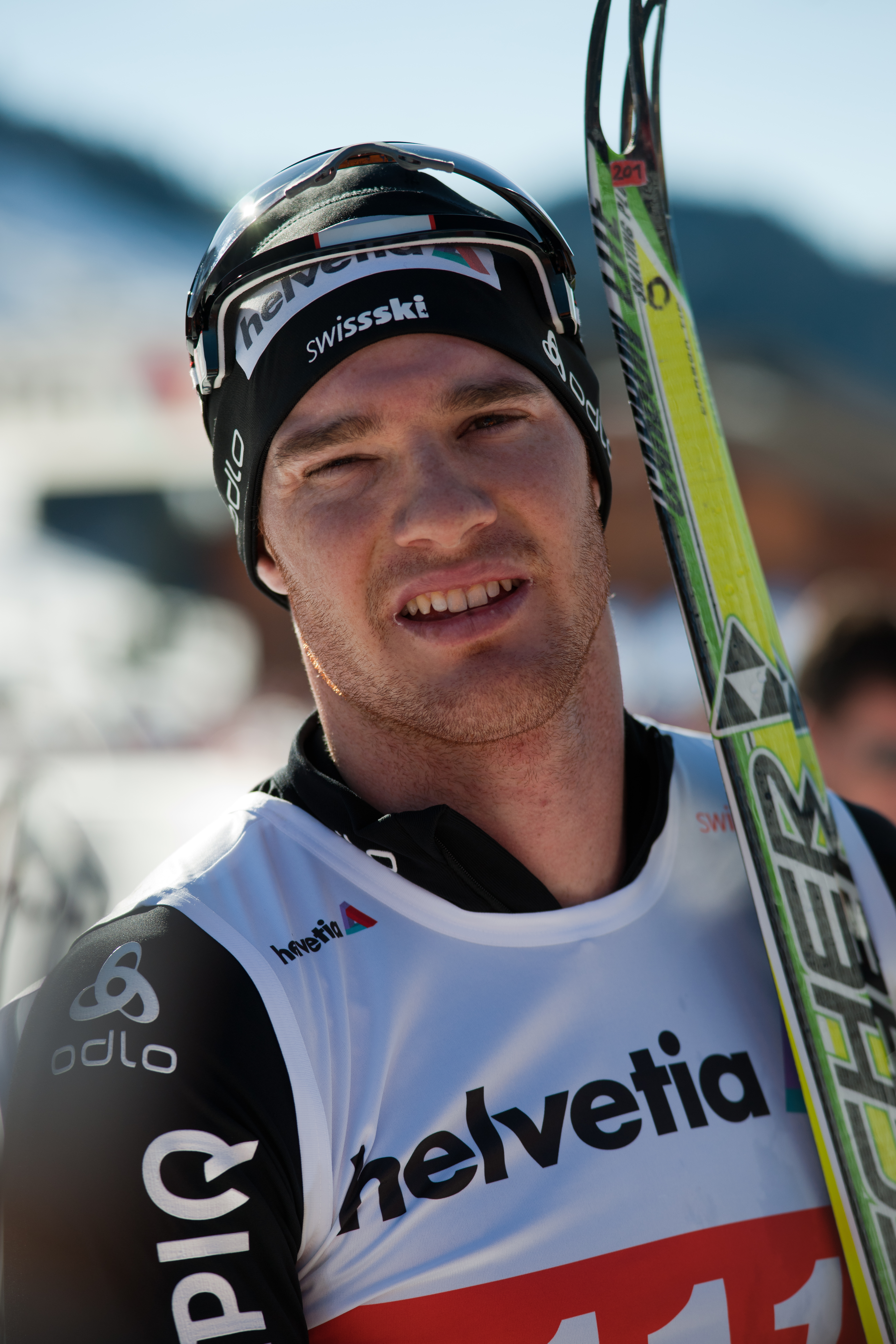 2011 Swiss cross-country skiing championships - Duathlon